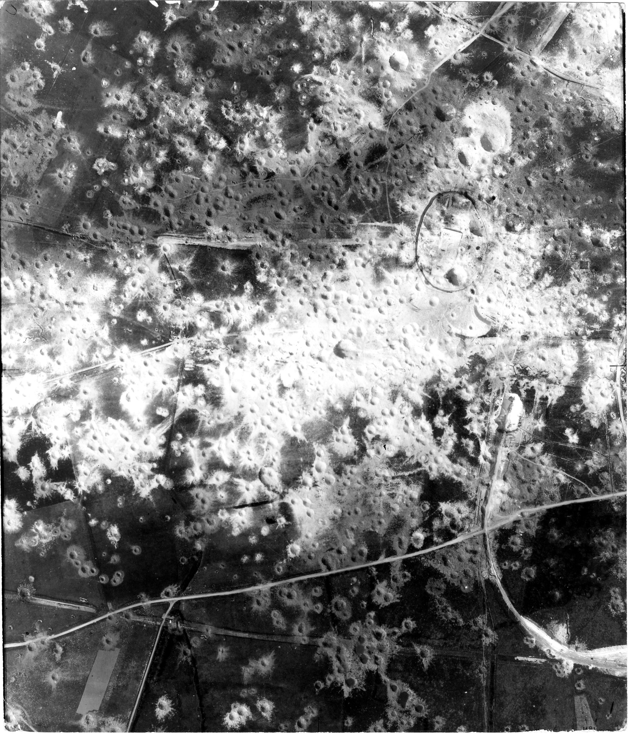 V-3 site at Mimoyecques, France. Photo taken August 4, 1944 by Spitfire MK XI "Hot Toddy" (PA842) piloted by Lt. John S. Blyth of the 14th Squadron, 7th Photographic Reconnaissance Group (Keen, "Eyes of the Eighth" p 357). The photo is rotated by 180° in order to show approximately the situation such as on a north-oriented map.